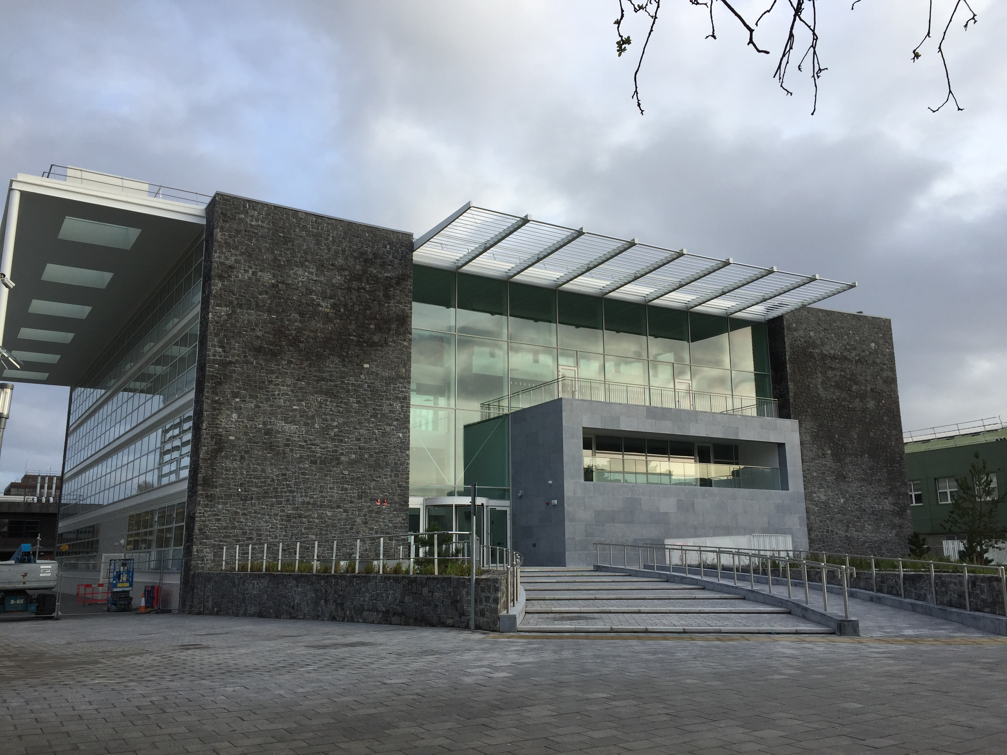 The Human Biology building on NUI Galway campus. Due to open in 2017